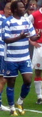 André Bikey. Image cropped from original at flickr.